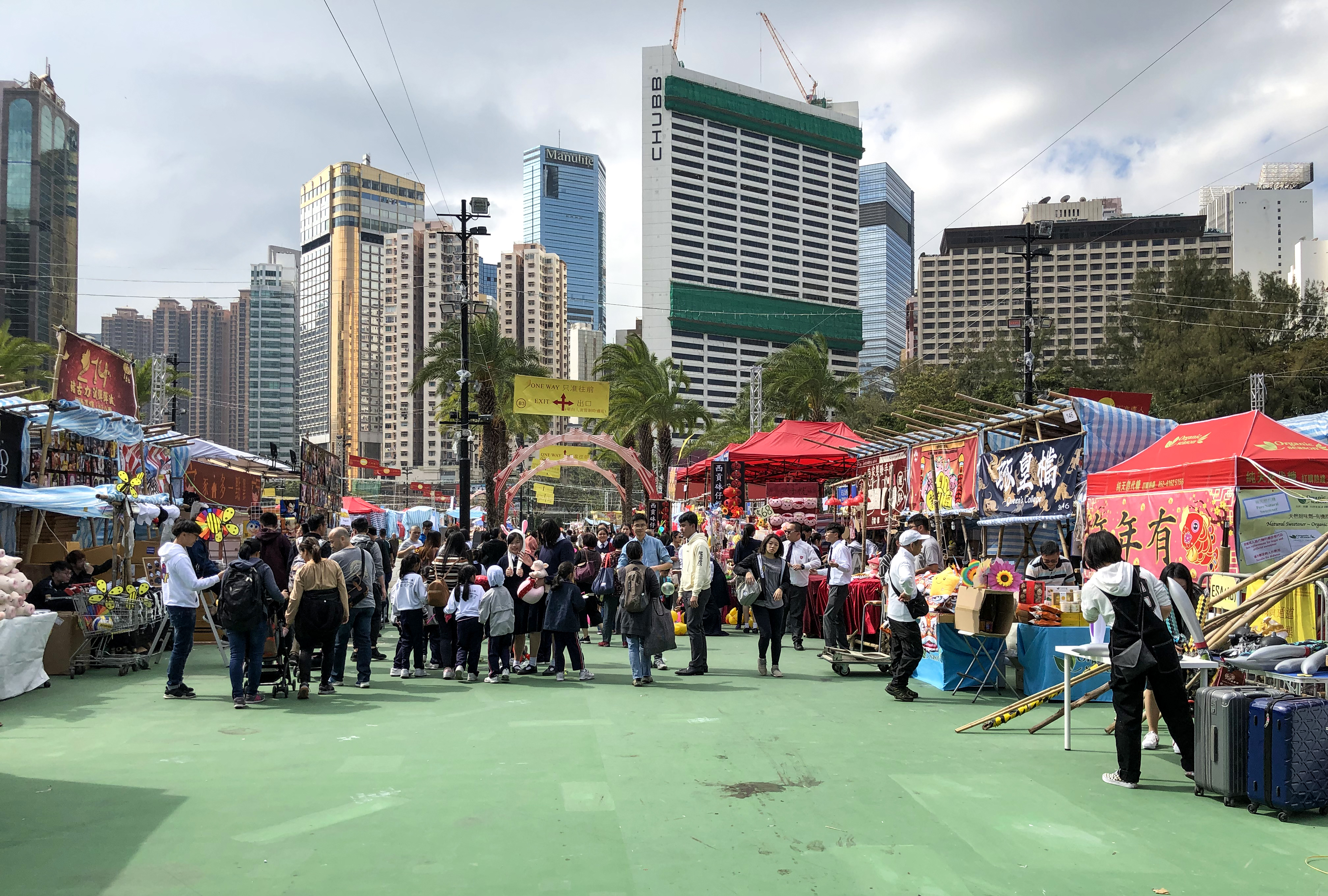 Several stalls are pig-related. Yet the only mary-janes seen here are worn by students.